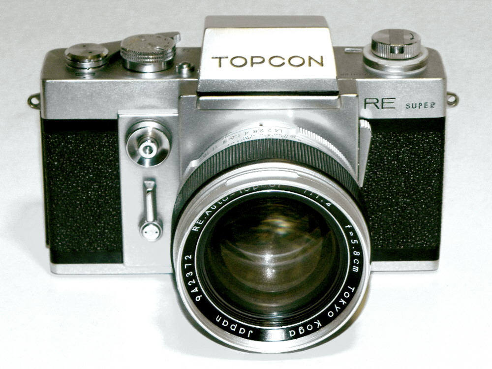 Front view of Topcon RE-Super chrome